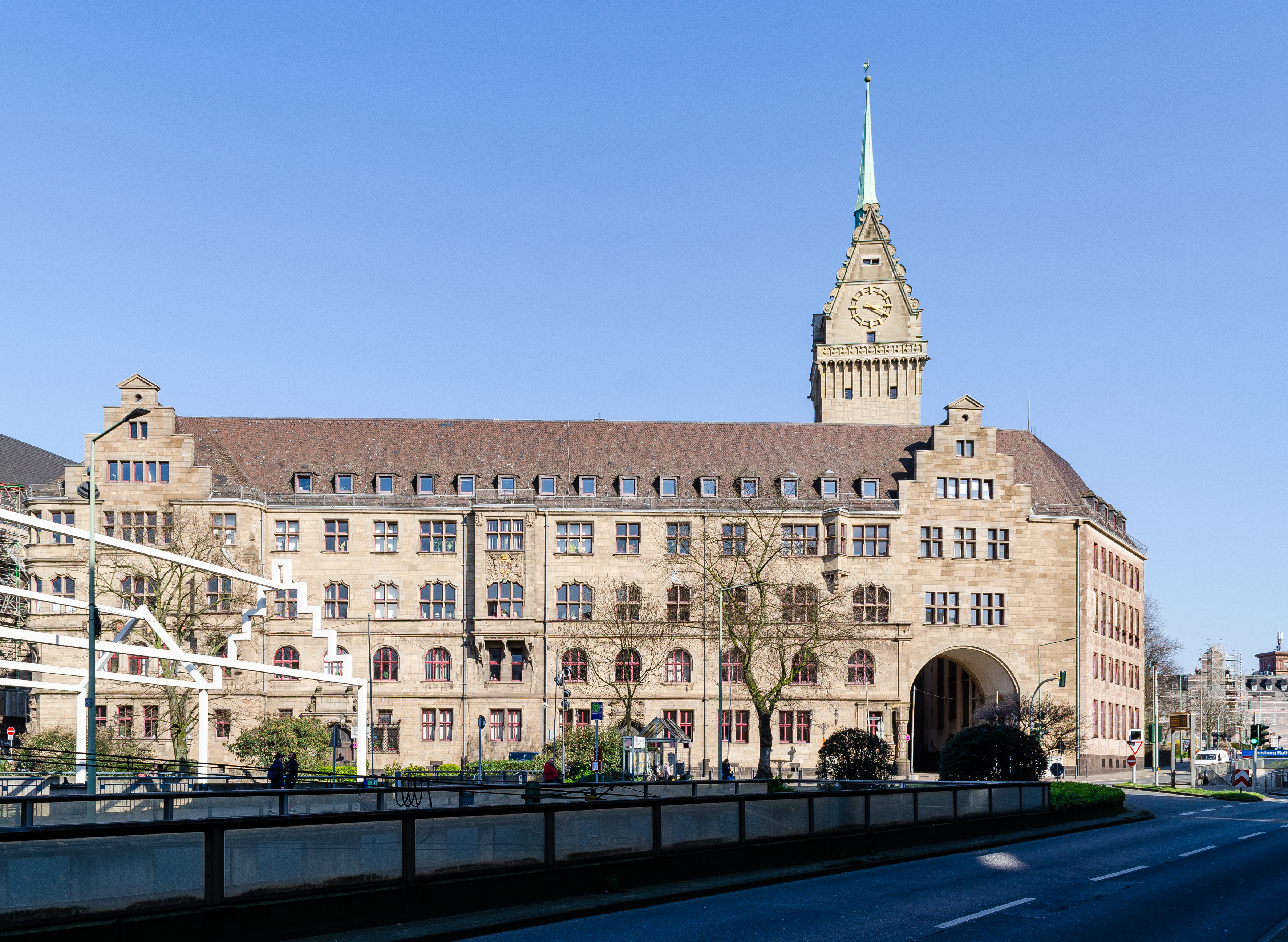 Duisburg (North Rhine-Westphalia, Germany) – borough Mitte, district Altstadt – city hall – west facade